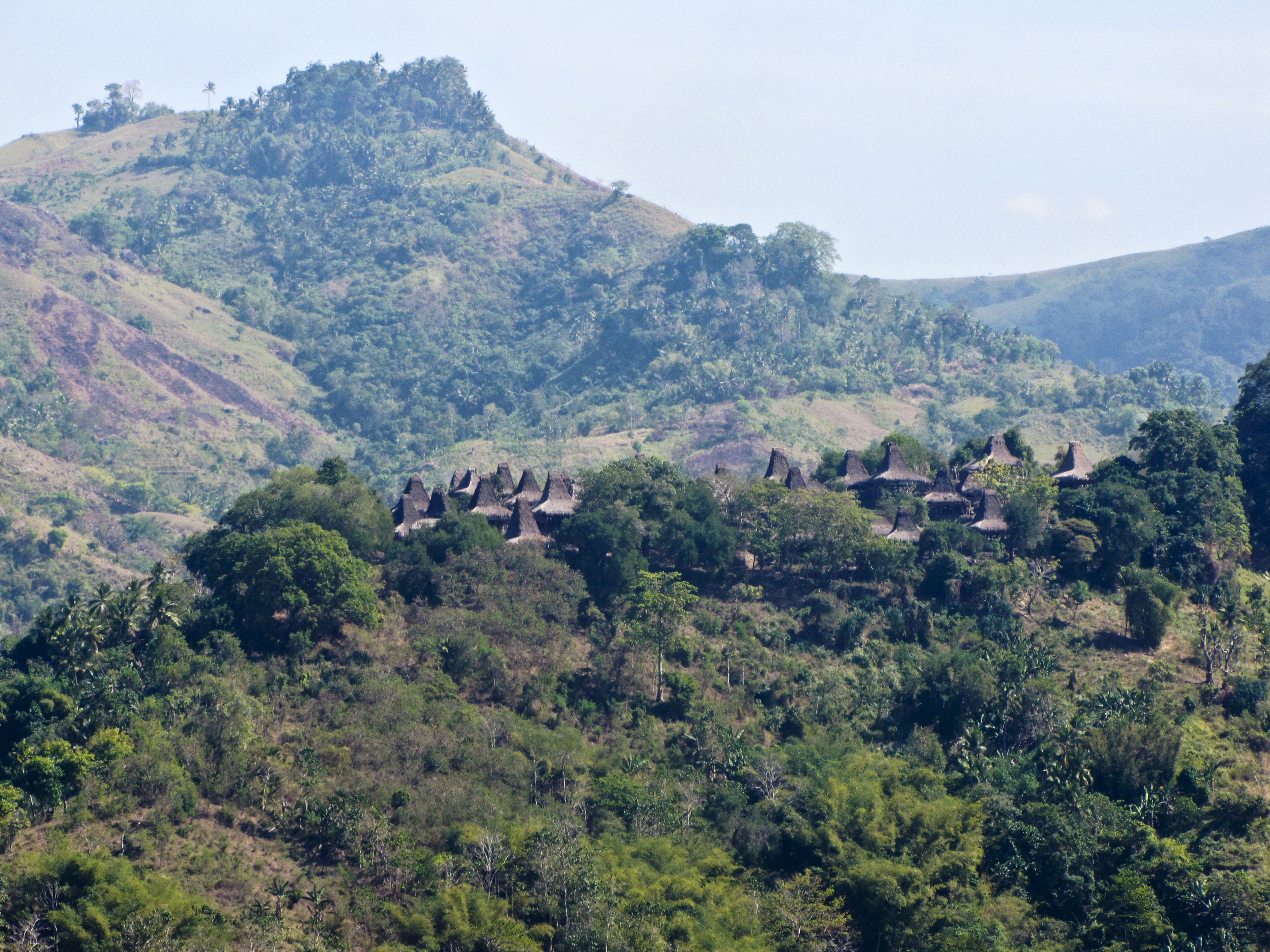 High-roofed village built on a hilltop